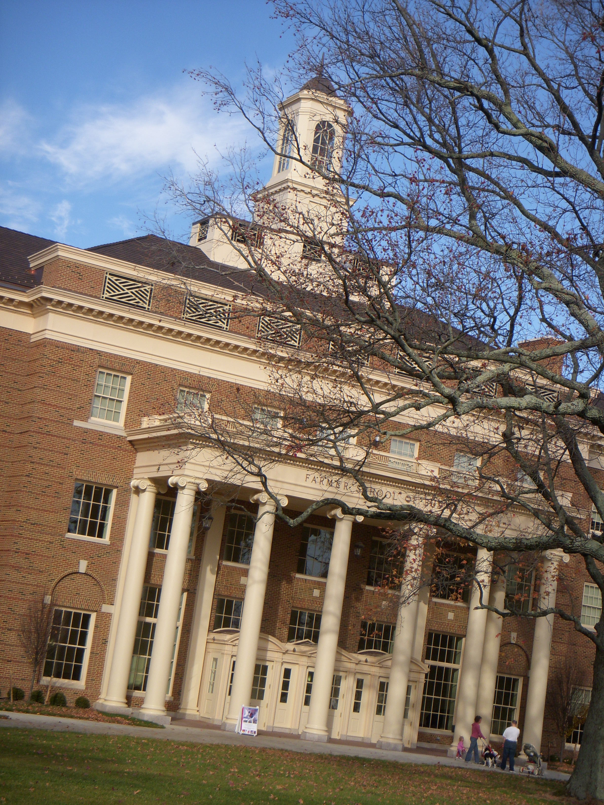 Angled close up of front entrance.